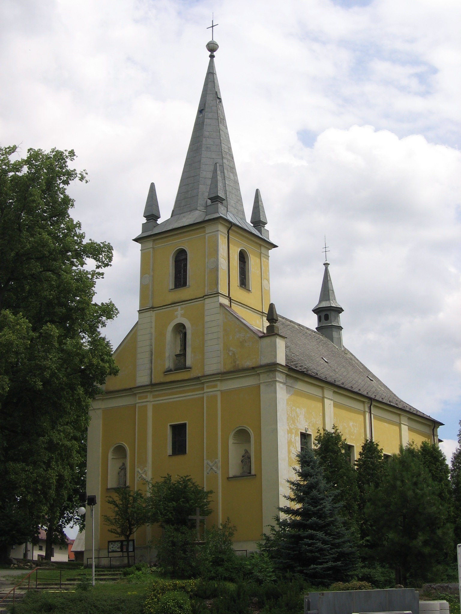 Church of St. John the Baptist' Torture to Death in Solnice (Czech Republic)